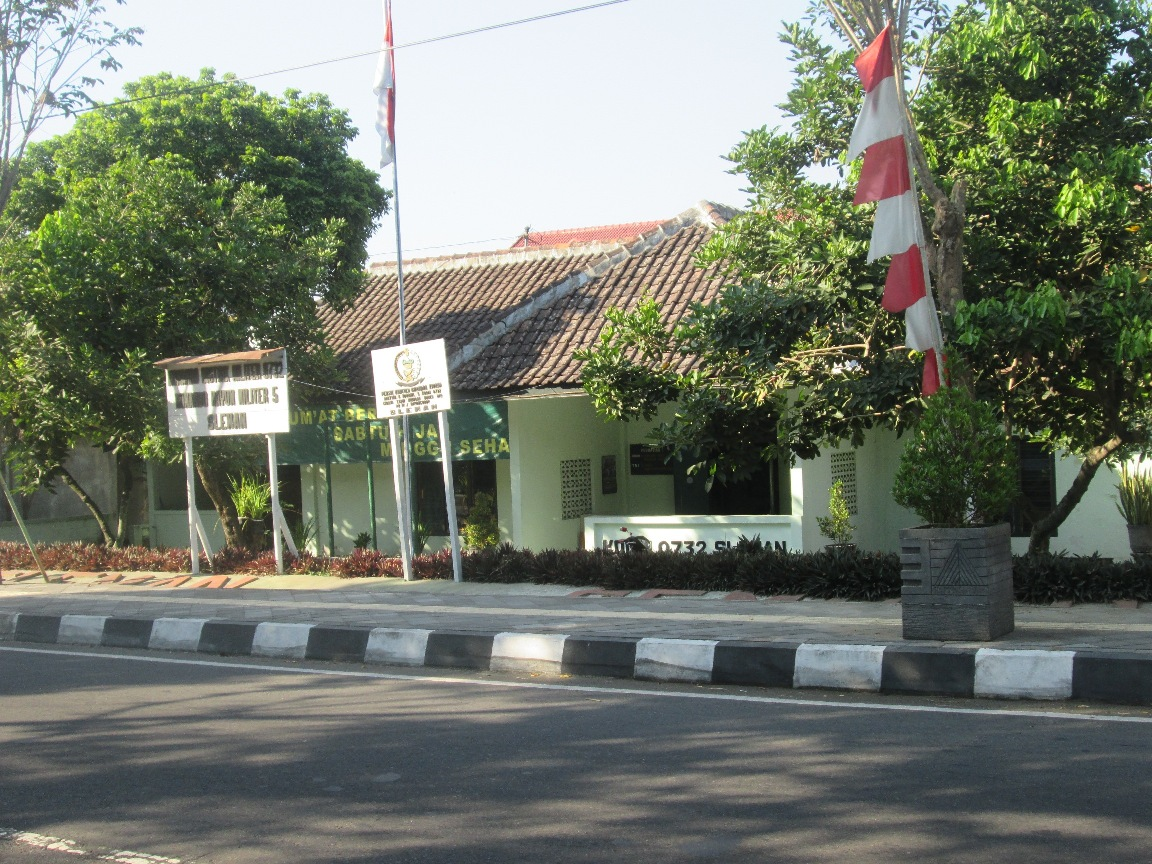 Ex-Beran station. The station is now used as military headquarters.